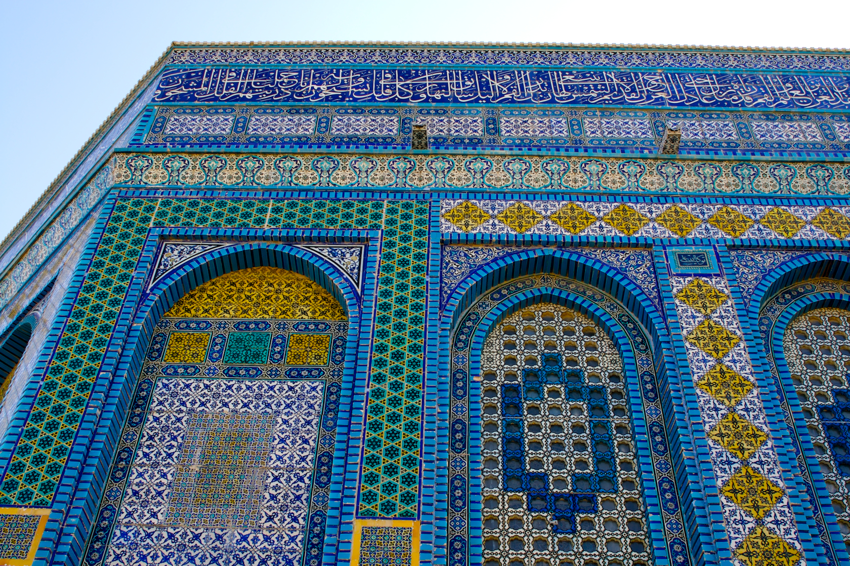 Dome of the Rock detail